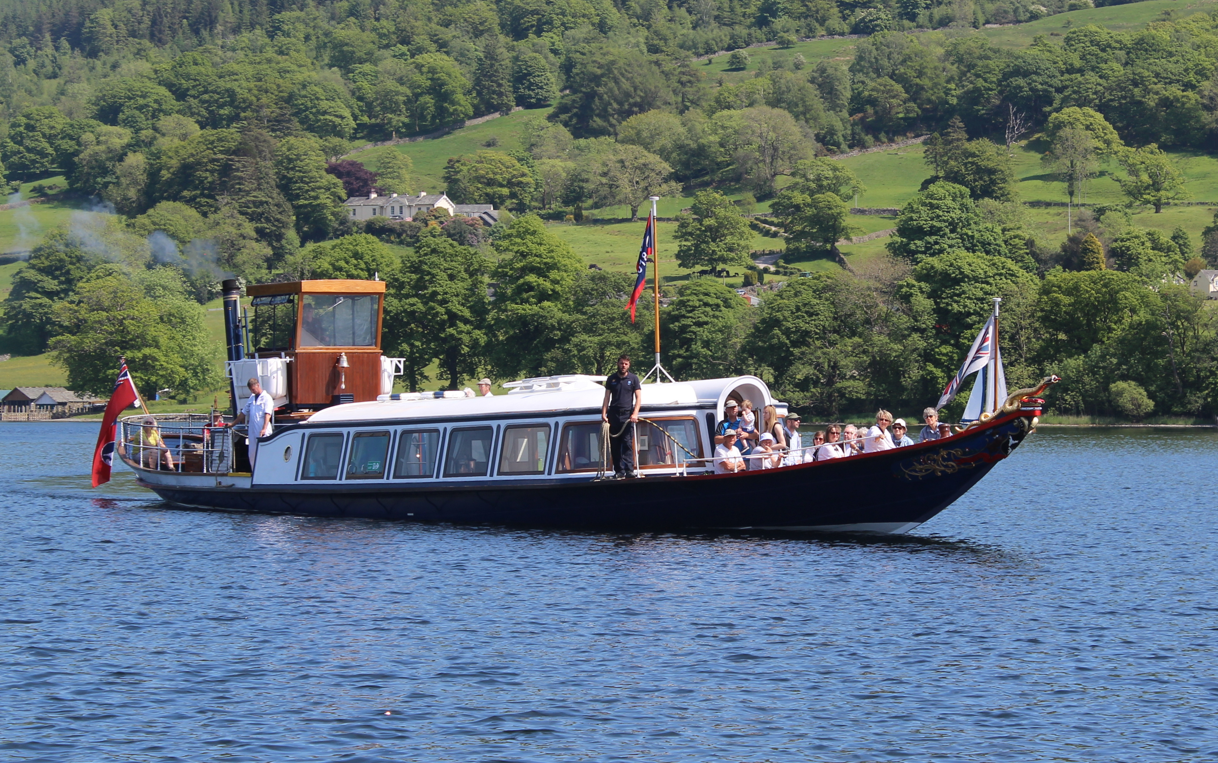 Steam Yatch Gondola, on Coniston Water. She was originally built in 1859, retired in 1936 and in 1979 was rebuilt by the National Trust who now use her as a pleasure steamer.